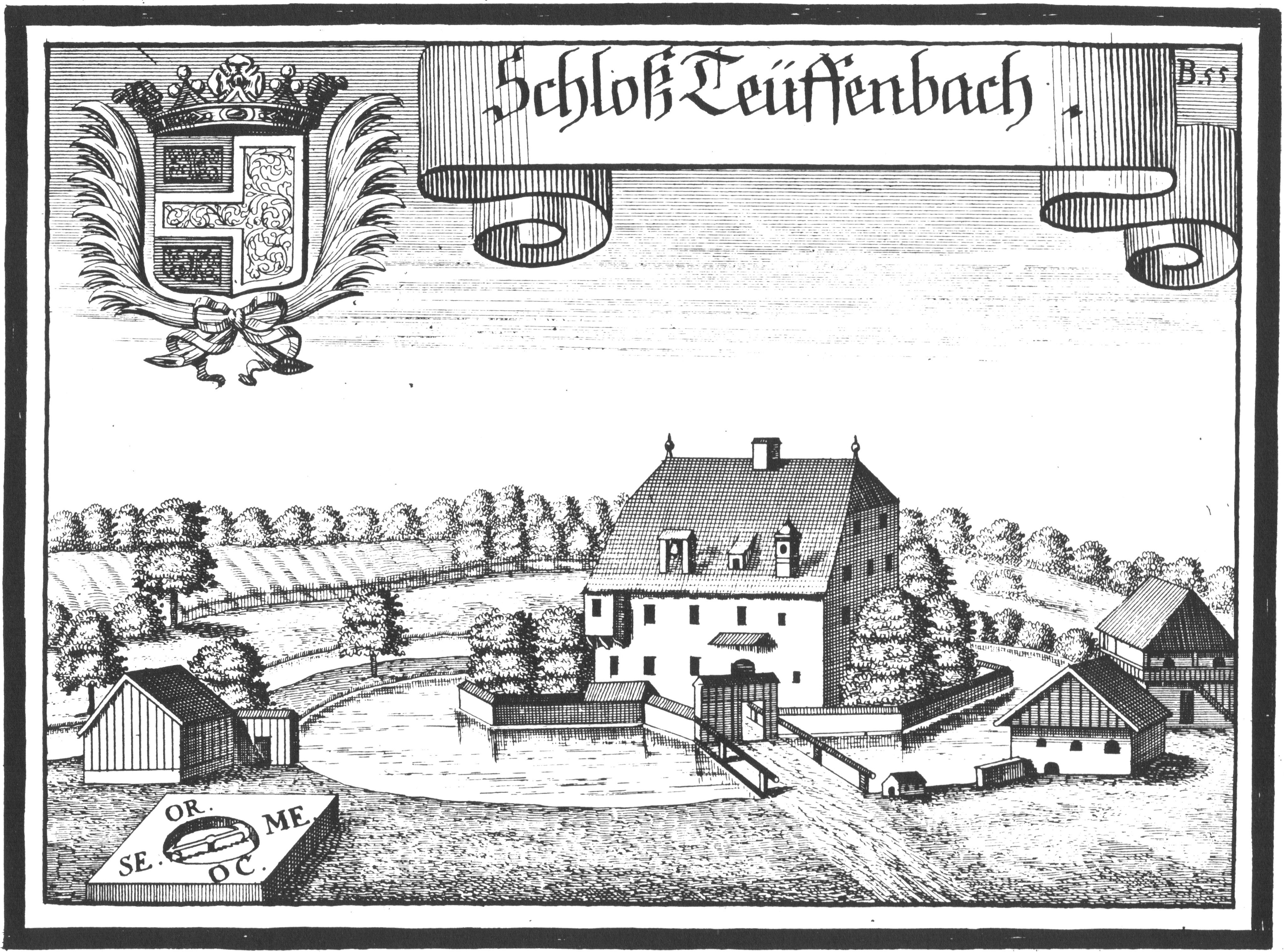 Michael Wening: Engraving of Teufenbach castle, Upper Austria (ca. 1721)